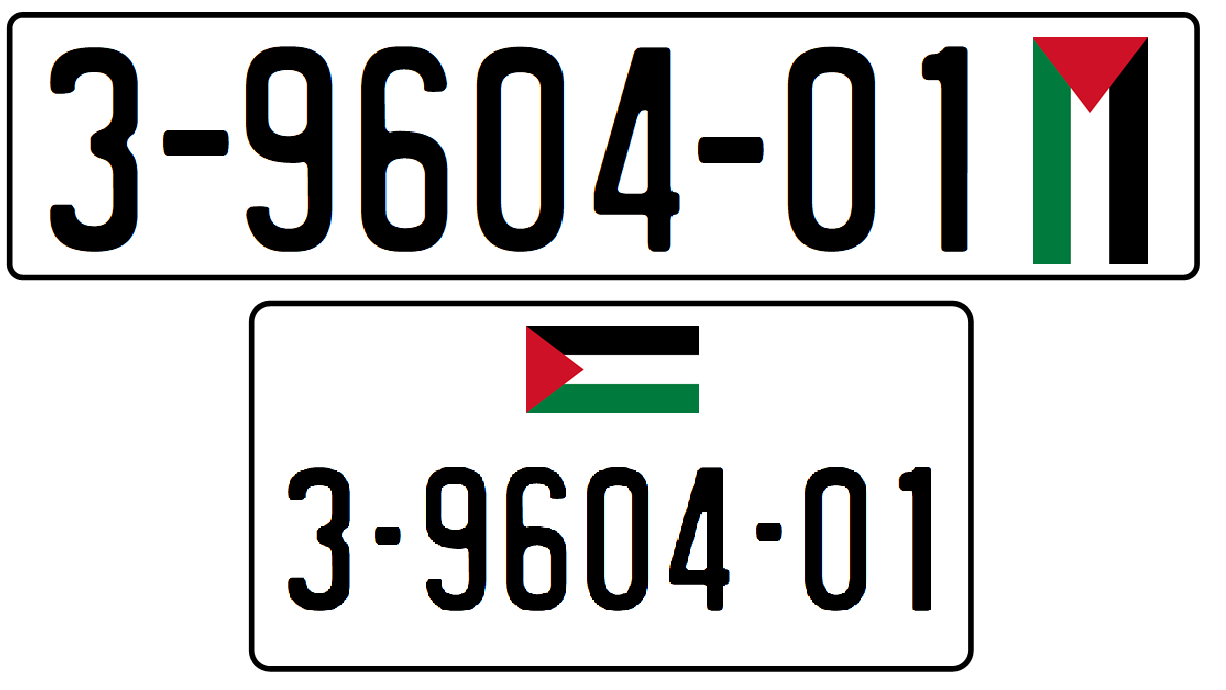 Sketch of a license plate of the Gaza Strip from 2012